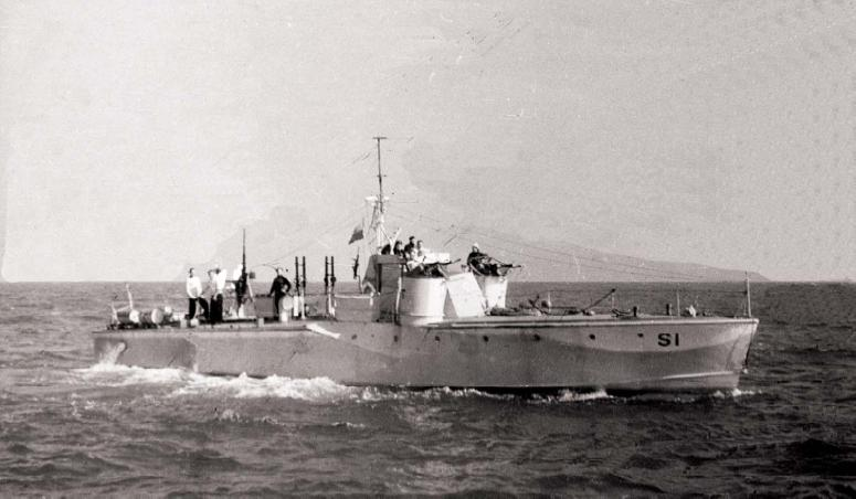 Polish motor gun boat S1 Chart of World War II